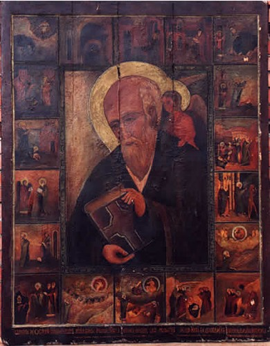 The Icon of Cheremenec monastery